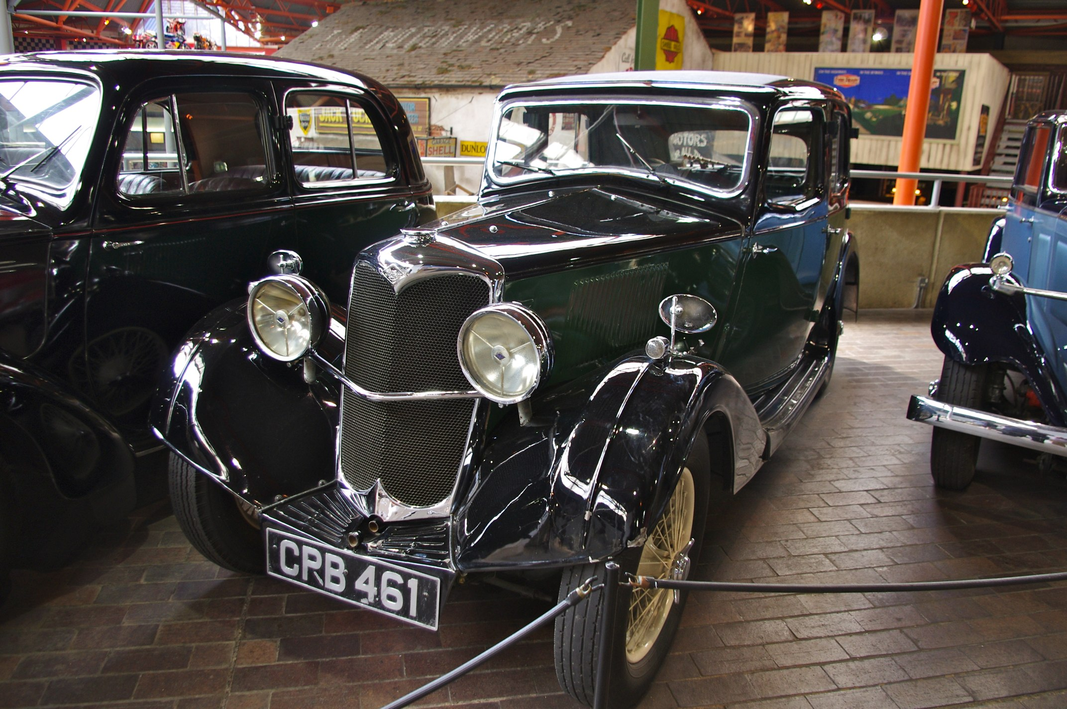 Riley Nine Falcon 1934 (DVLA) first registered 17 December 1934, 1109cc National Motor Museum, Beaulieu